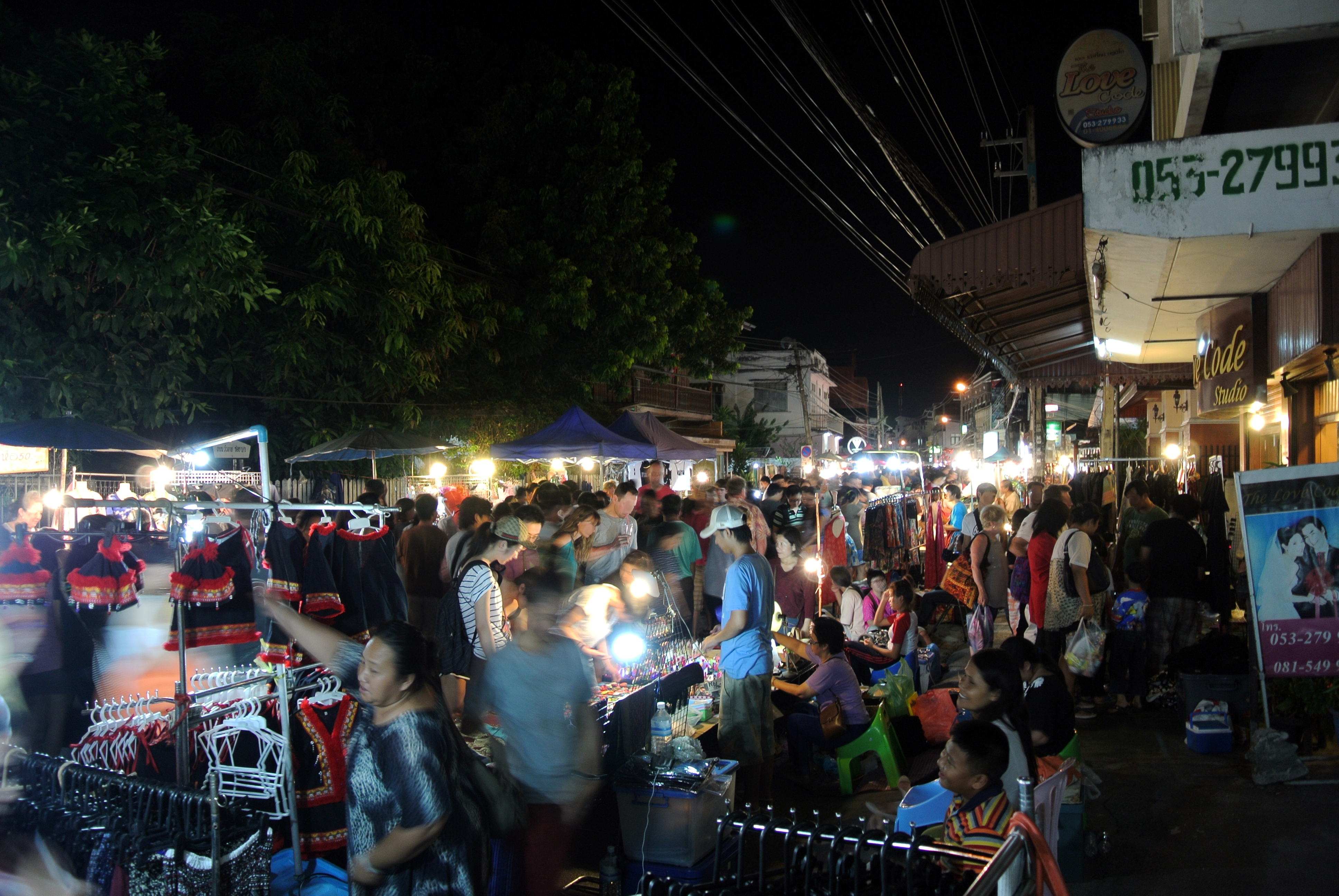 Night Market on Wua Lai Road in Chiang Mai, so-called Saturday Walking Street Market.